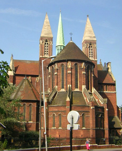 Croydon: St Michael and All Angels church, near to Croydon, Great Britain. The eastern apse of St Michael and All Angels church, a late 19th century structure tucked into Croydon's main shopping area. Although Church of England, it is (and always has been) very Anglo-Catholic in its leanings and could easily be mistaken for a Roman Catholic church inside. The architect, J. Loughborough Pearson, built the similarly Anglo-Catholic St John the Evangelist in Upper Norwood.